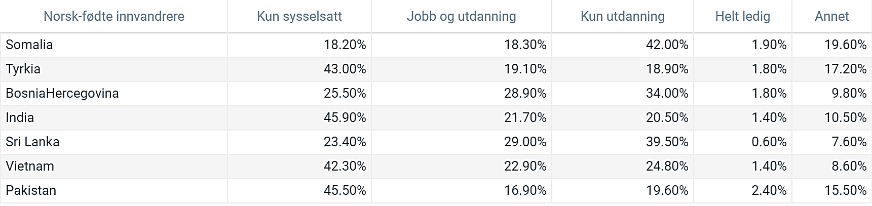 2018, SSB labour and education statistics minorities in Norway, 16 - 39 years. 2 generation.